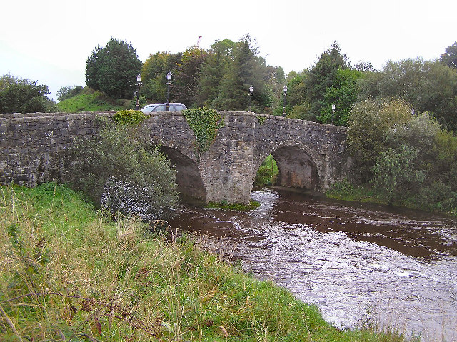 St James' Bridge, Omagh. This historic bridge is on the Irishtown Road and is over the Drumragh River. It is so-called as it is believed that King James with a contingent of troups was believed to have crossed over it enroute to a famous battle. It is narrow and only allows for single traffic and there are V-shaped "draw-in" spaces for pedestrians. For many years there wasn't traffic lights and motorists had to proceed carefully.